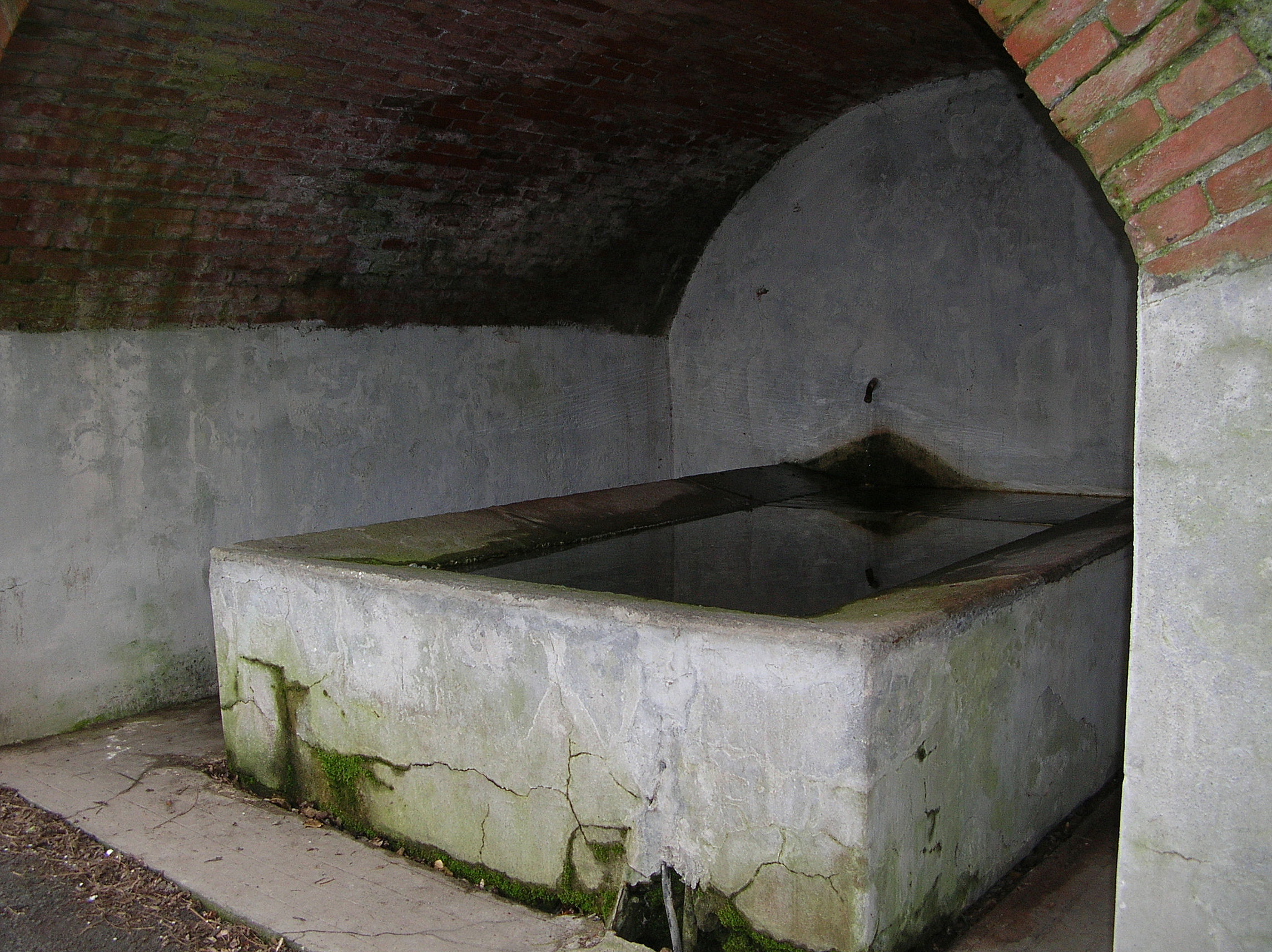 Genoa (Italy), quarter of Bolzaneto, old public wash at Murta